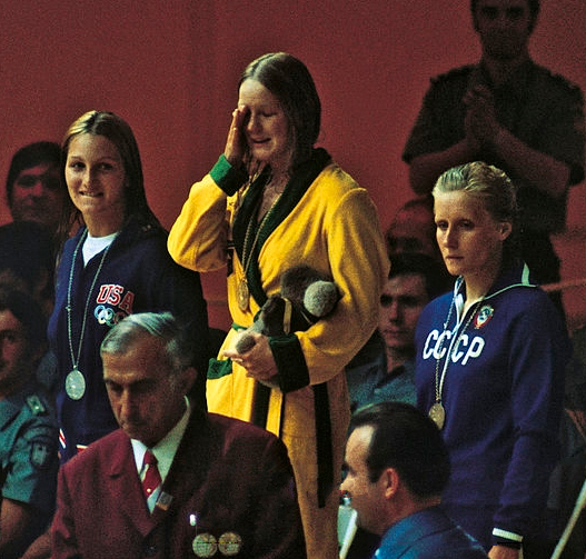 On the podium of the women's 200 metres breaststroke final, the emotional eighteen-year-old Australian celebrates her gold medal with the American Dana Schoenfield and the Soviet Galina Stepanova Prosumenchikova, silver and bronze medal respectively. Munich, 29th August 1972. Munich, 29th August 1972.